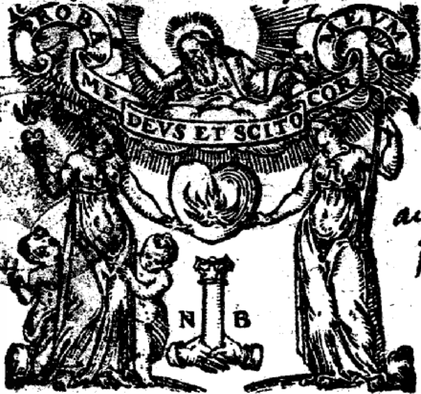 Brand of the parisian medieval printer Nicolas Bonfons